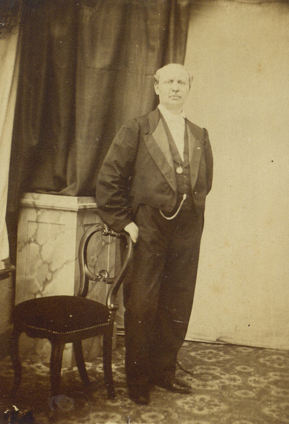 Hans Christian Lumbye (1810-1874), Danish composer